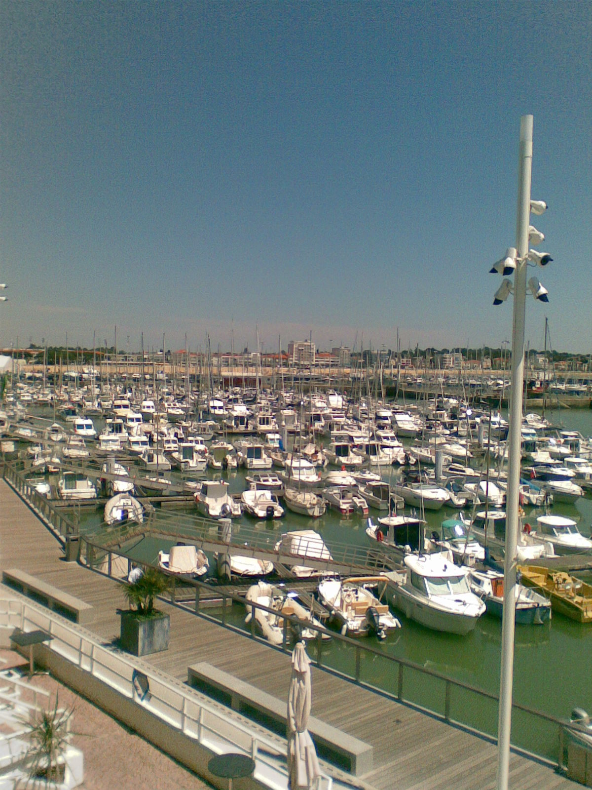 Port in Royan, Charente-Maritime, France